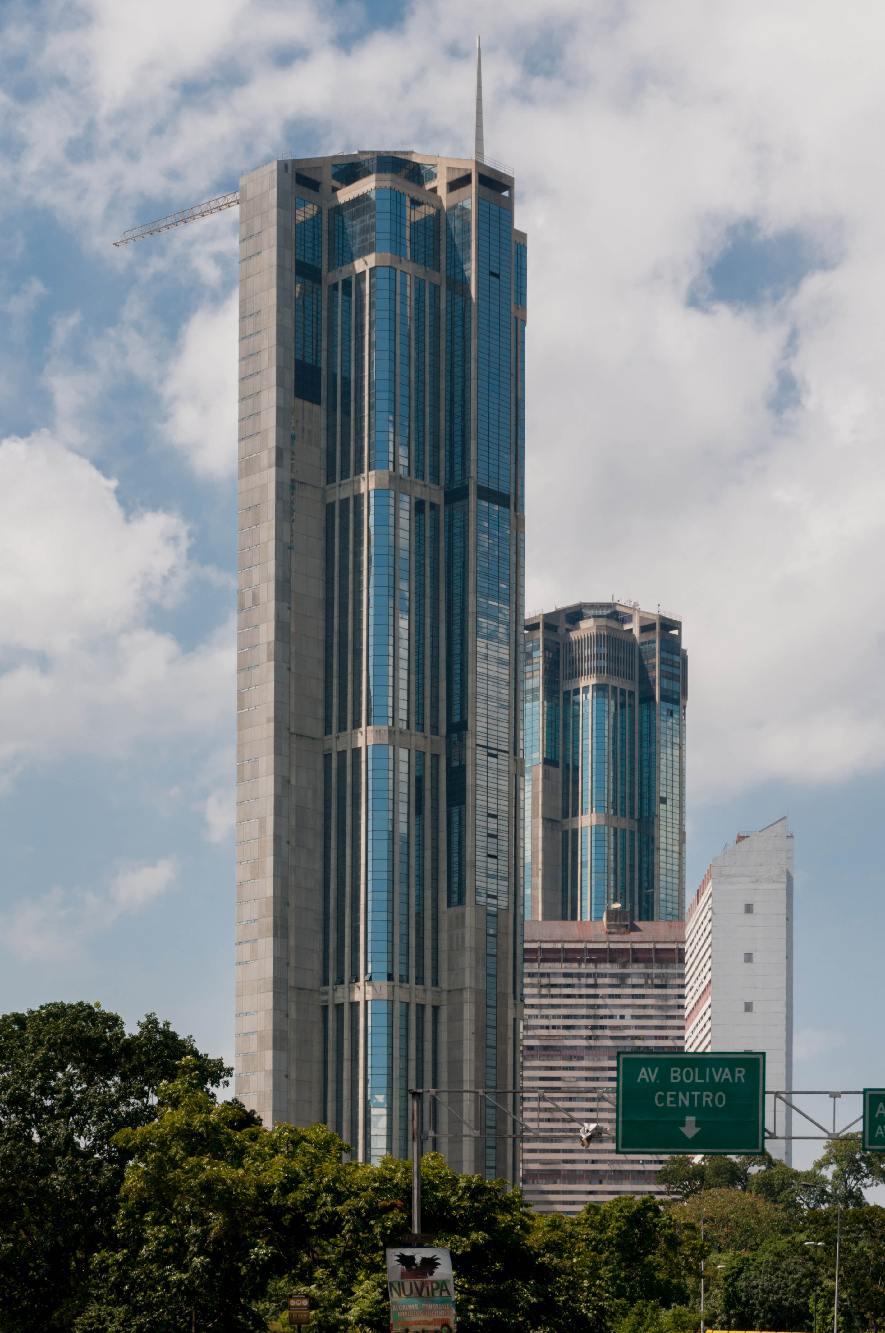 Caracas Central Park